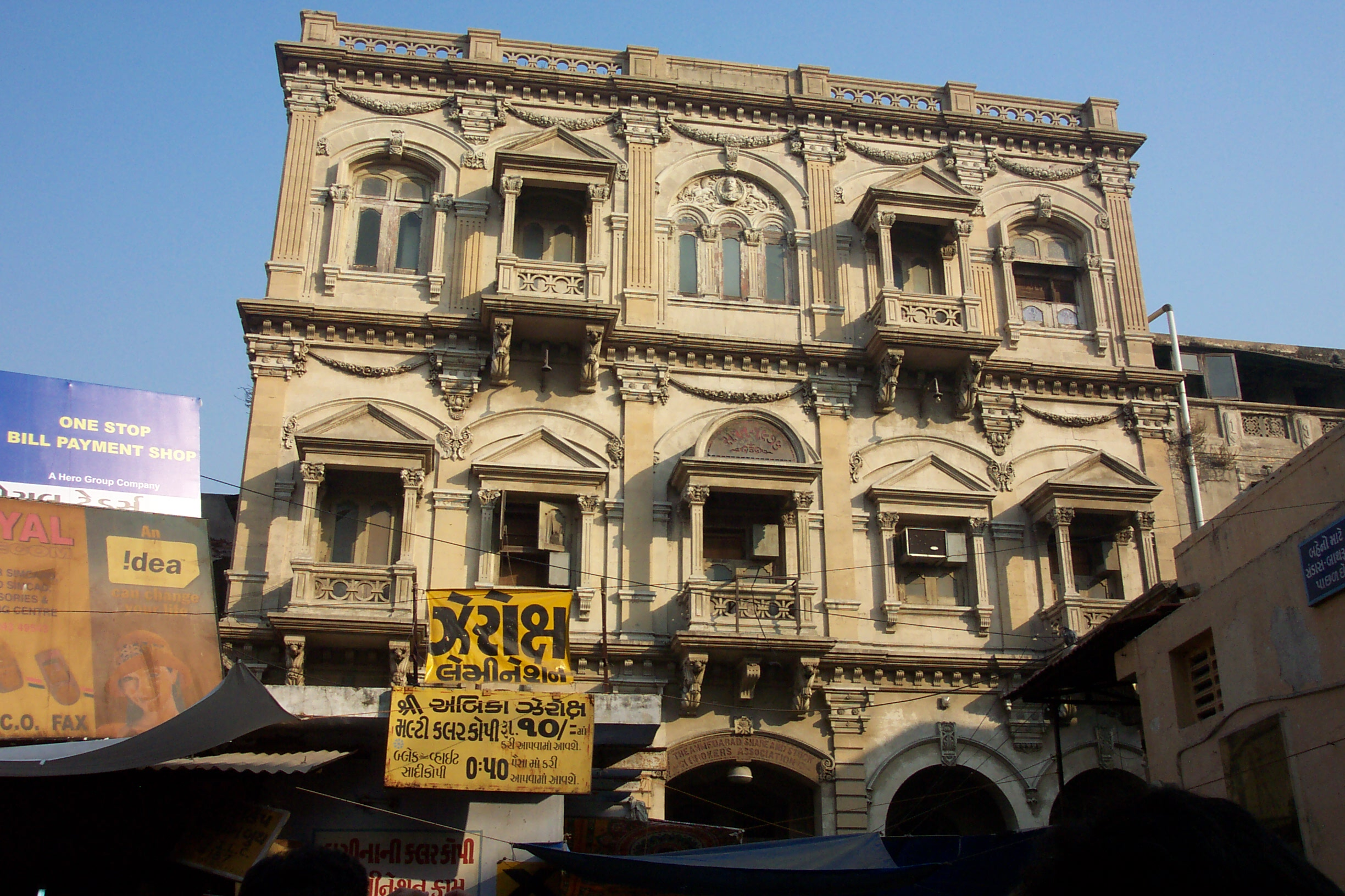 Photos of Ahmedabad's Walled City taken during the Heritage Walk conducted jointly by Ahmedabad Municipal Corporation and the CRUTA Foundation